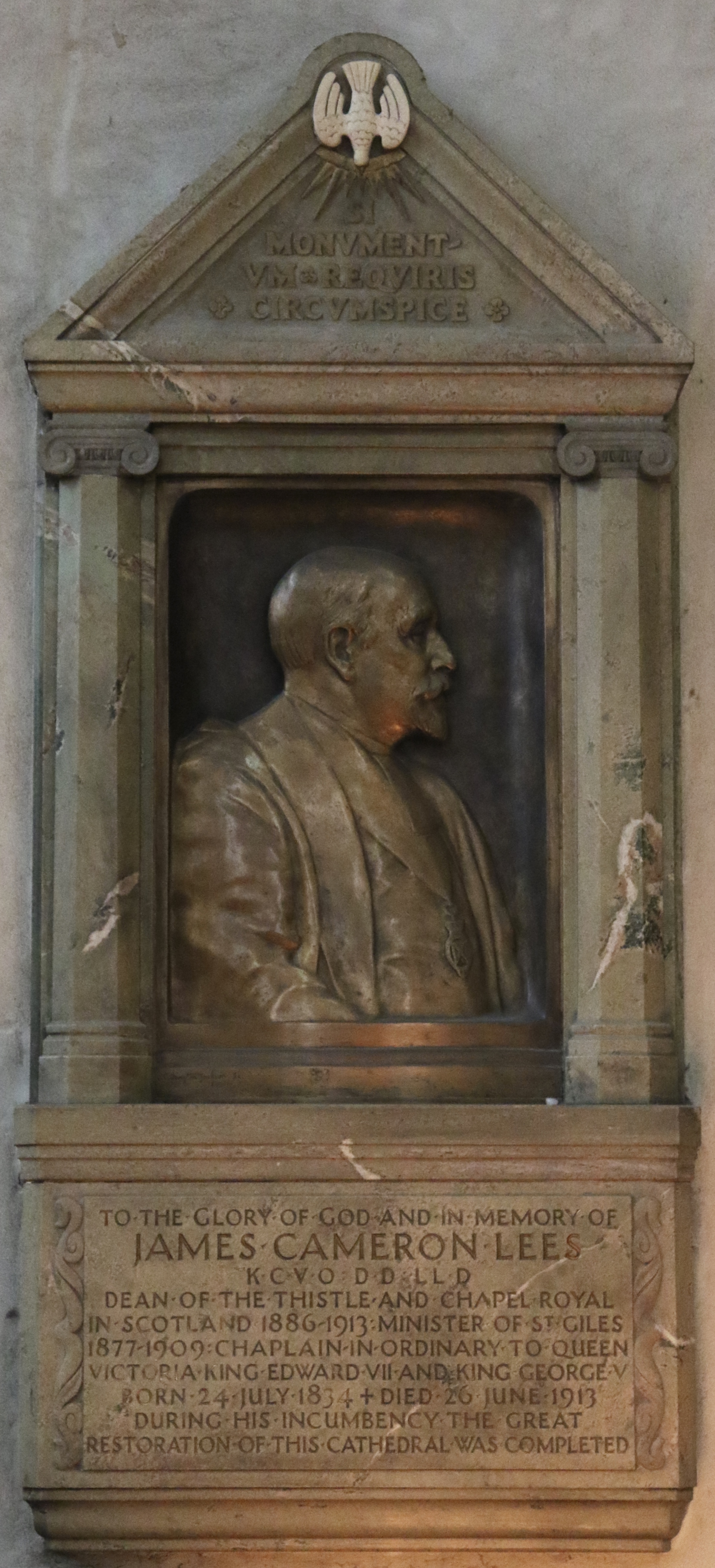 In memory of James Cameron Lees KCVO, DD, LL D. Dean of the Thistle and Chapel Royal in Scotland 1886-1913. Minister of St Giles 1877-1909. Chaplain in ordinary to Queen Victoria, King Edward VII and King George V. Born 24 July 1834. Died 26 June 1913 During his incumbency the great restoration of this cathedral was completed.